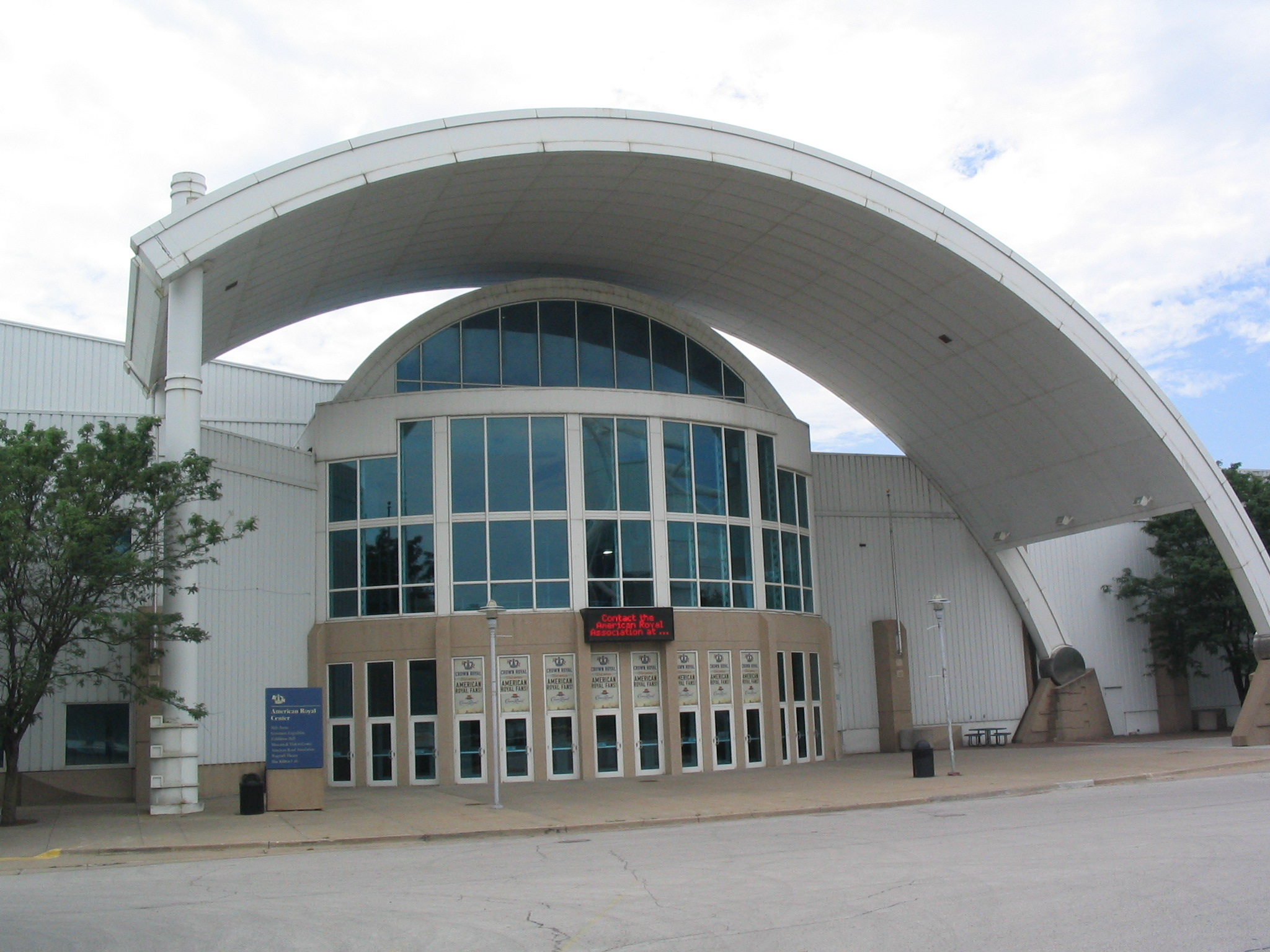 American Royal Complex, photo taken on June 11, 2015. The complex was constructed in 1992, and houses the American Royal rodeo and livestock shows, as well as their administration center and a museum.